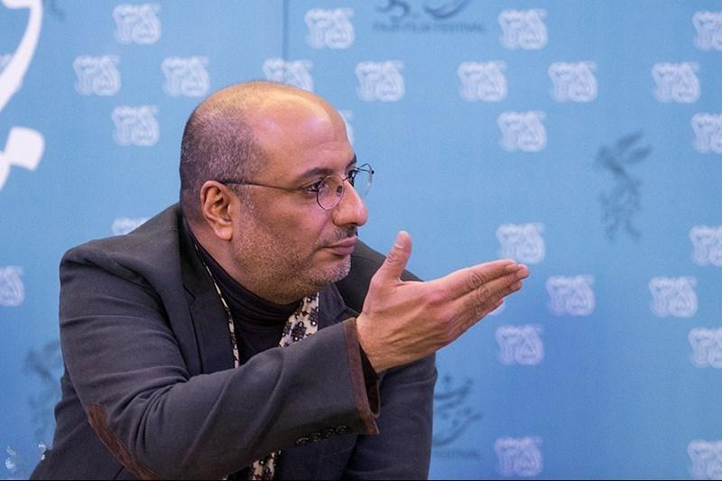 Media conference of Sophie and the beast at Milad tower.